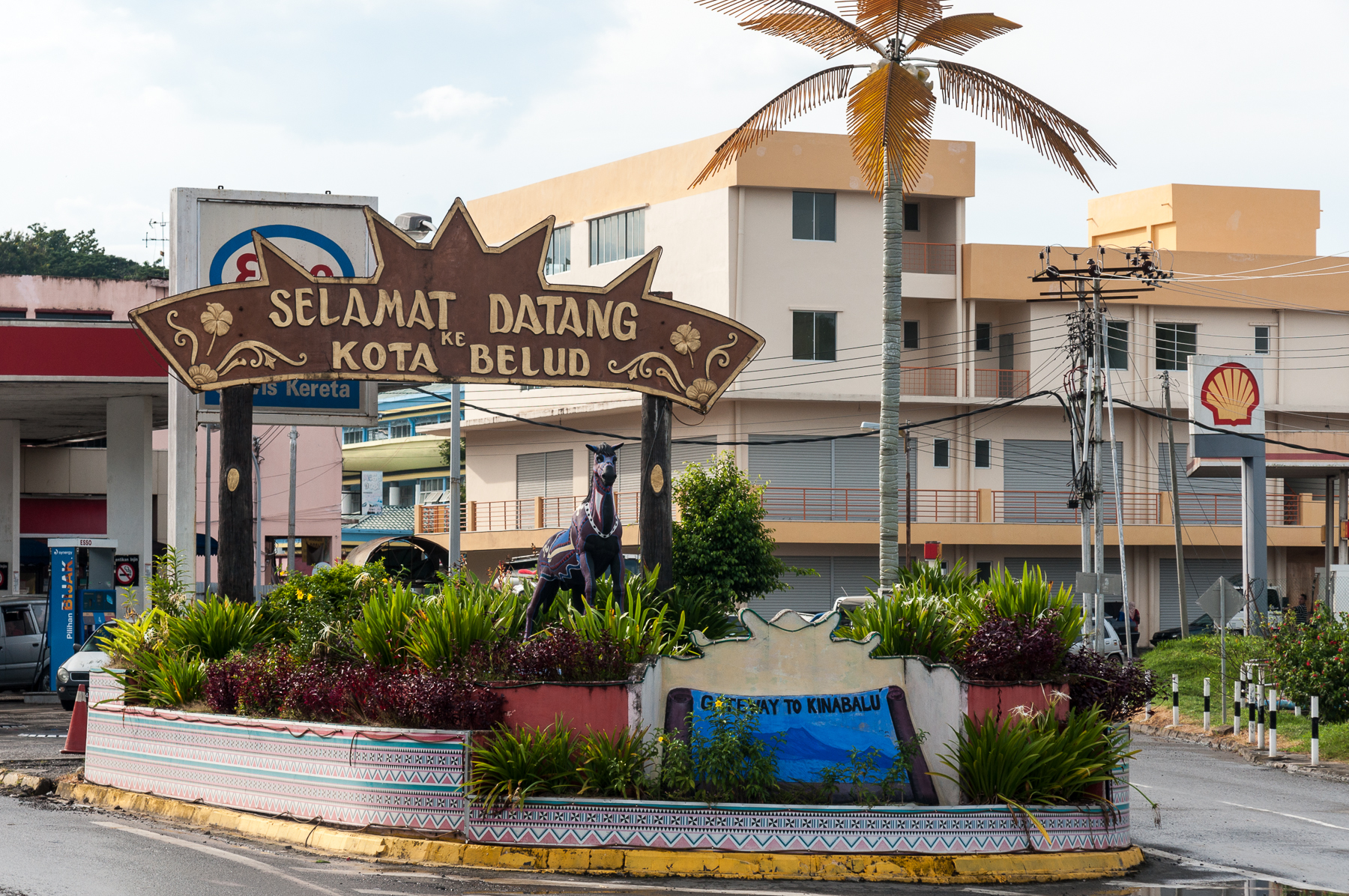 Kota Belud, Sabah: Welcome Plate in Kota Belud